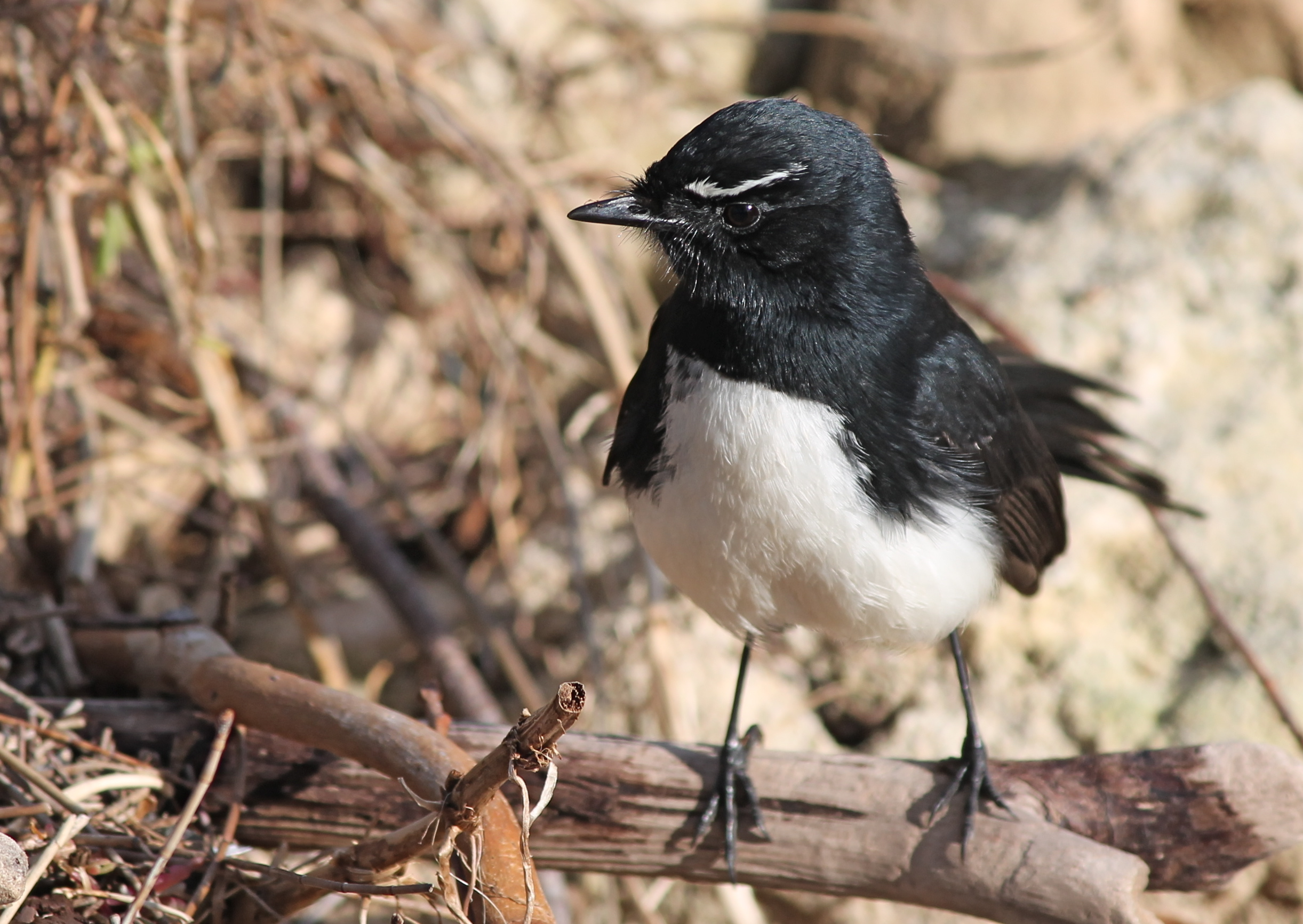 Rhipidura leucophrys (Willy Wag Tail) on South Perth foreshore